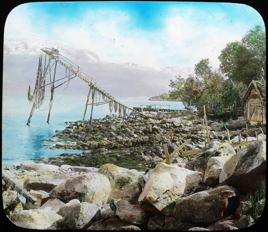 Laksegilje - a fishing device designed to capture salmon.